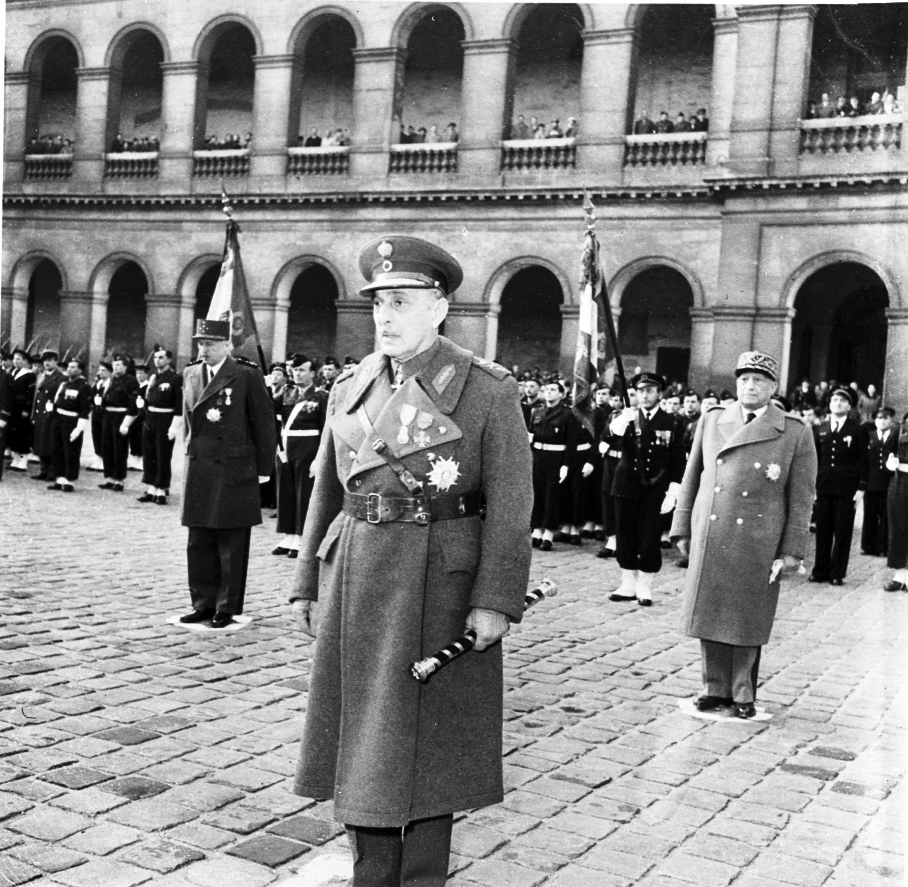 The Prime Minister of Greece, Field Marshal Alexandros Papagos, at the courtyard of Les Invalides, after being decorated with the Medaille militaire